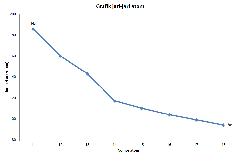 Graphical periodic trend of period 3 elements for atomic radii